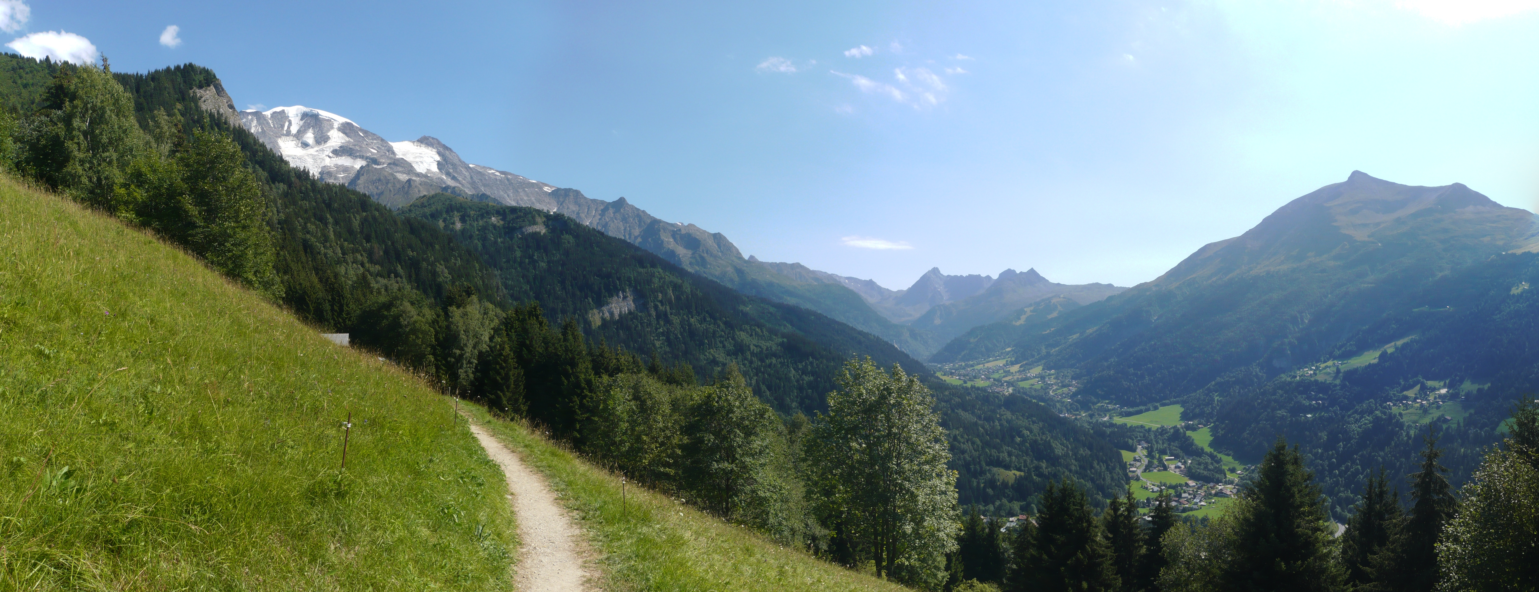 Panoramic of the Contamines-Montjoie valley, France.